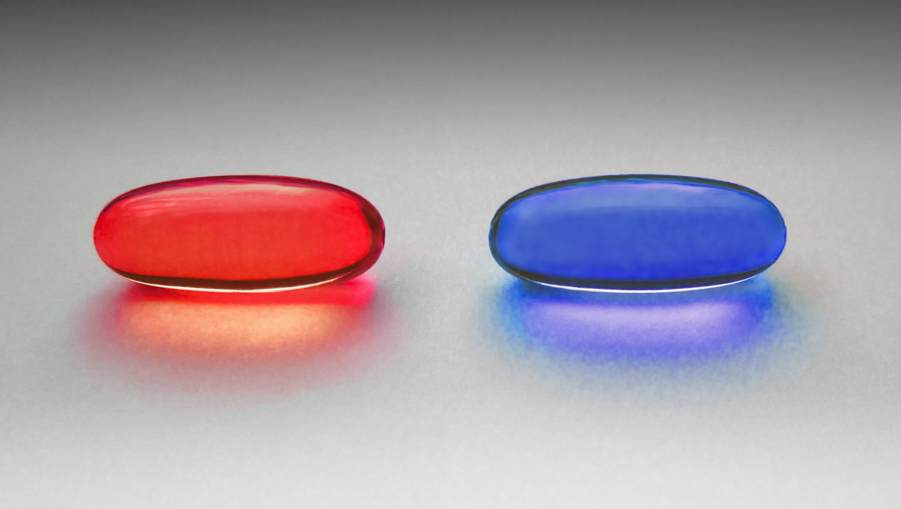 Red and blue pill as in the Matrix. The original photo is of two yellow omega-3 capsules, placed on a grainy paper on a windowsill. Light all natural from the window. Processed in Photoshop for color.